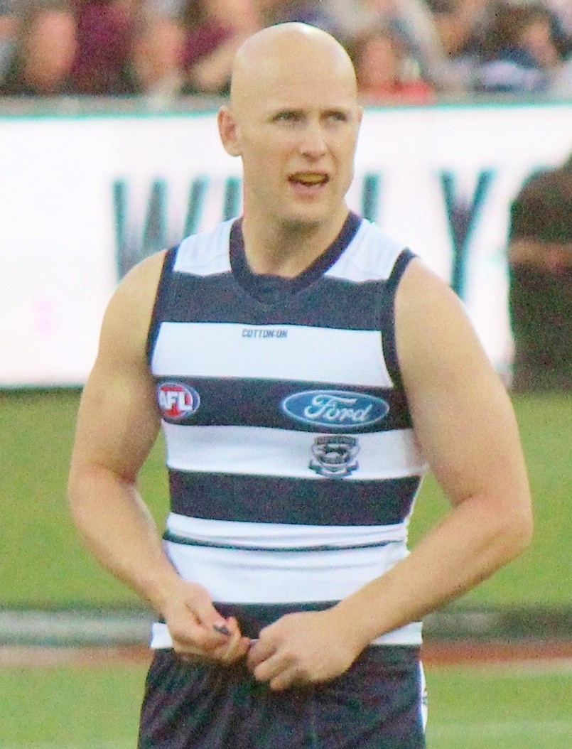 Gary Ablett with Geelong during a match against Western Bulldogs at Kardinia Park in round 9 of the 2019 AFL season.